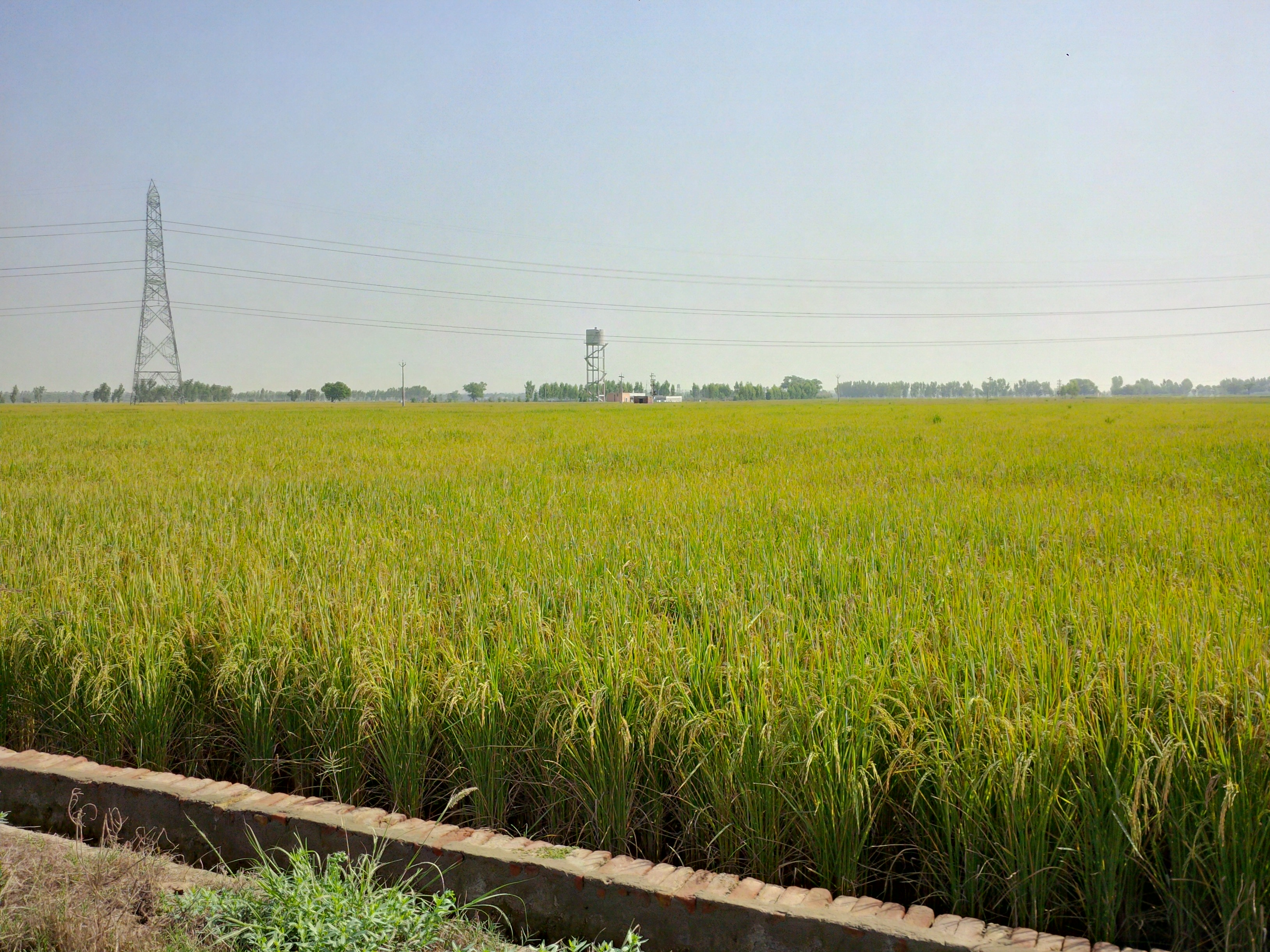 green rice fields in punjab village duhewala